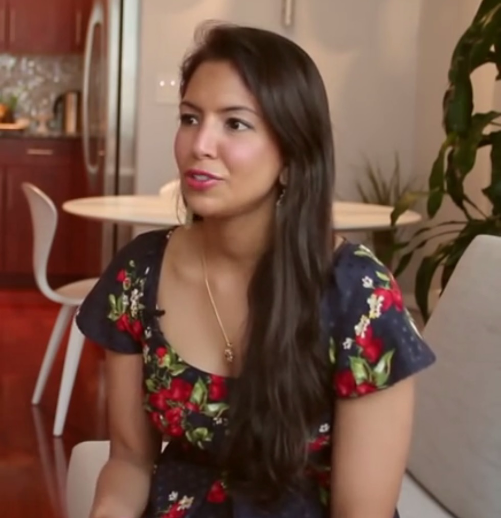 American food blogger Vani Hari, the Food Babe. Cropped screen capture from Social Media Personalities in Charlotte by the Charlotte Video Project.